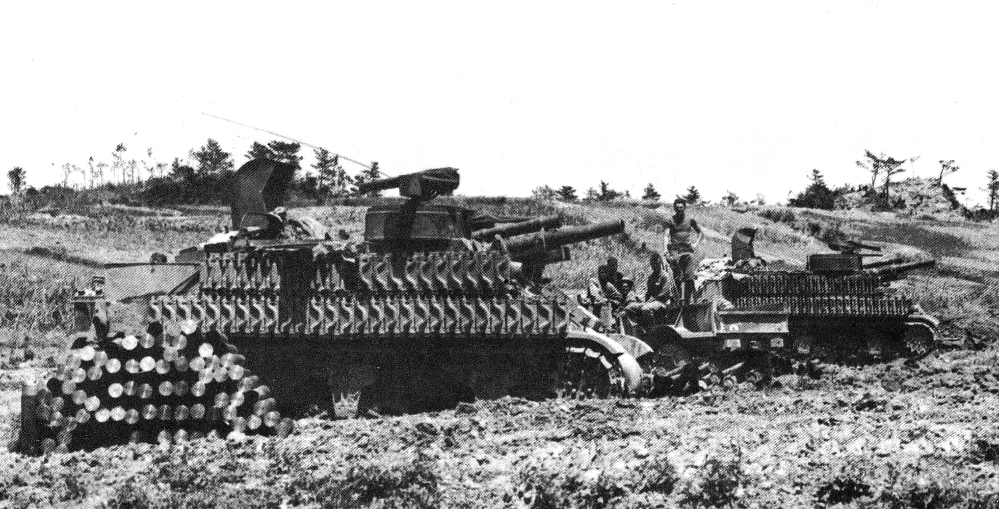 Two M7 self-propelled howitzers of the 1st Marine Division in action on Okinawa